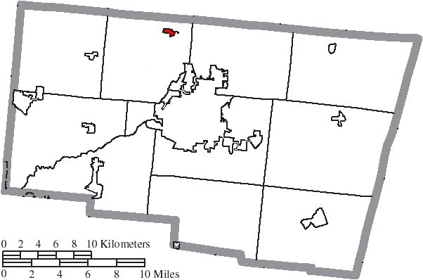 Map of the municipal and township boundaries of Clark County, Ohio, United States, as of the 2000 census, with the location of the village of Tremont City highlighted. Township borders are shown only in unincorporated areas in order to differentiate incorporated and unincorporated areas more clearly.